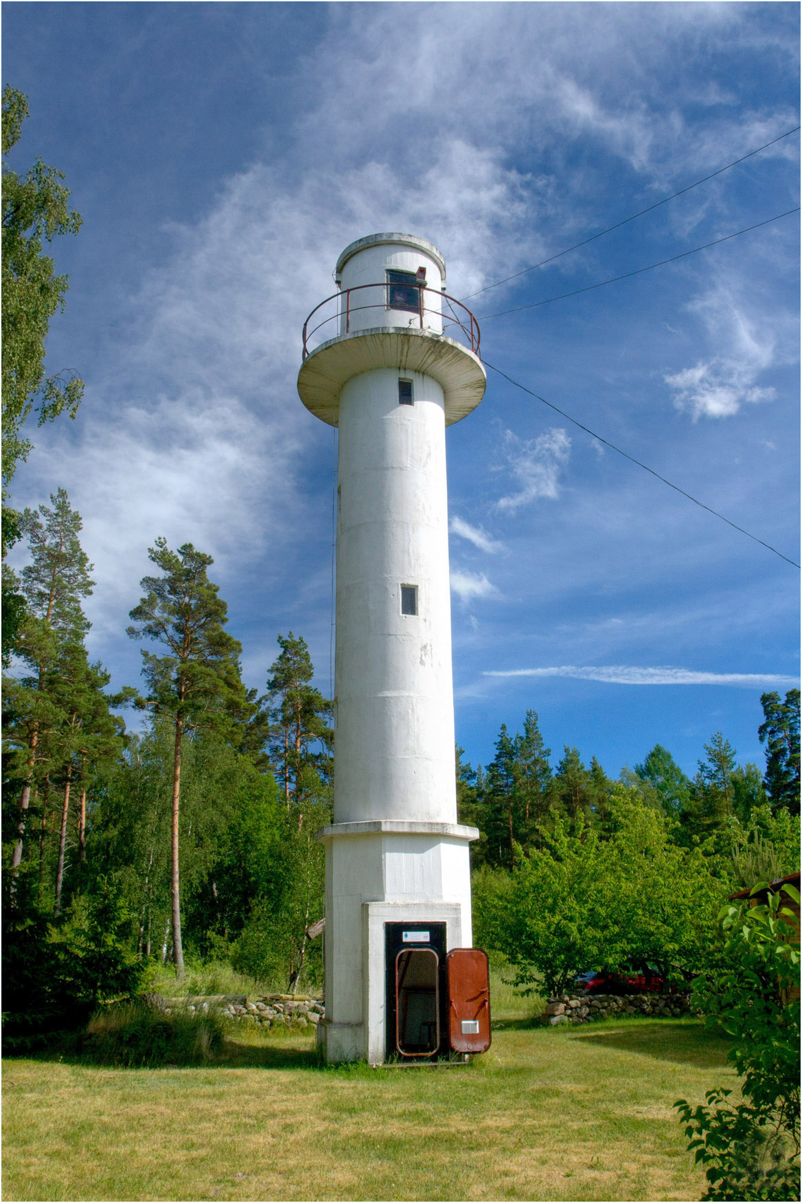 Paslepa rear light beacon